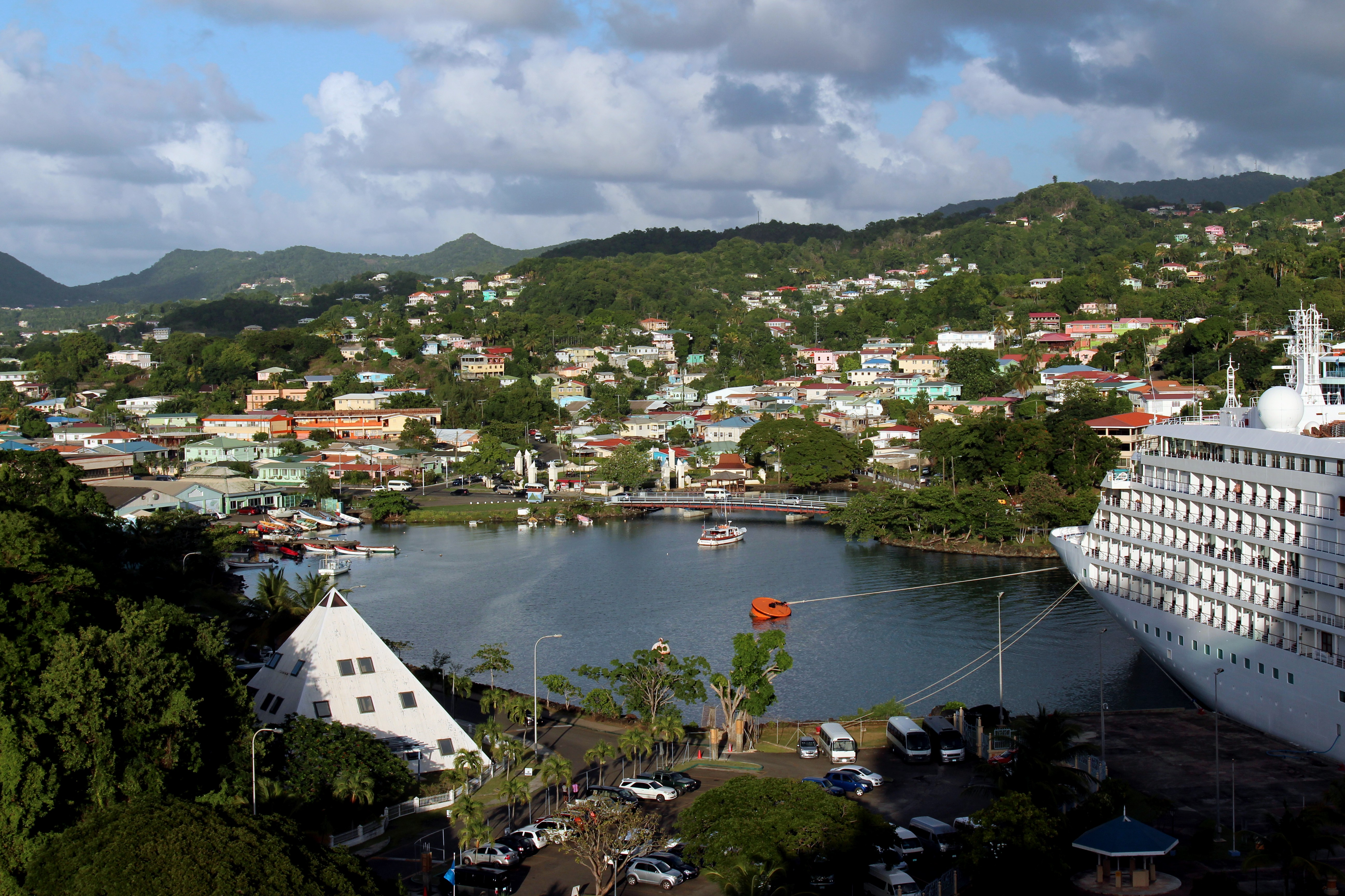 St Lucia Ship Name : Silver Whisper